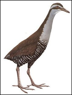 Drawing of a the Guam Rail, known as Ko'ko' in Chamorro (Gallirallus owstoni)